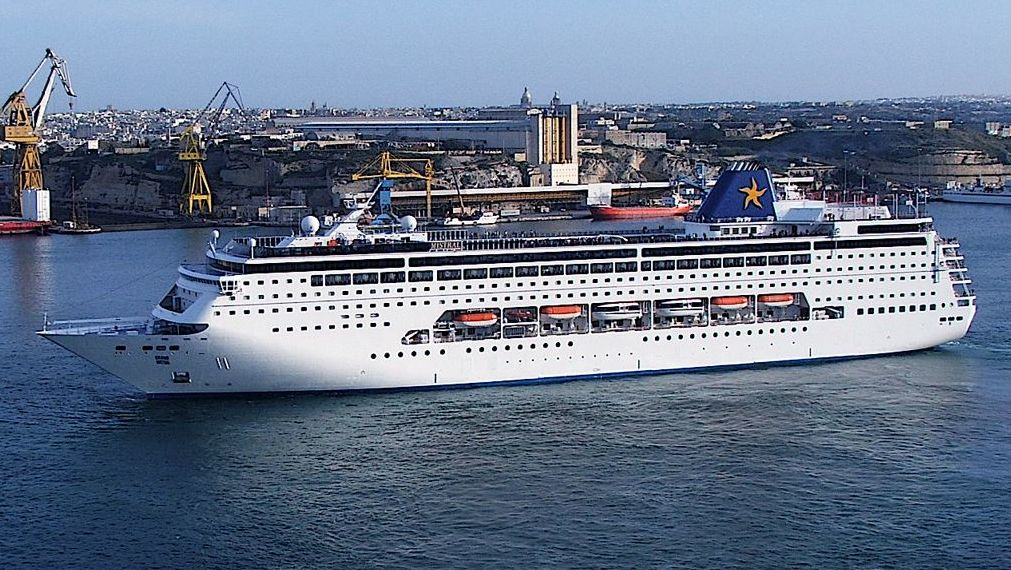 Cruise liners has made pleasure travelling open to everyone. These liners are like floating cities catering for all the whims of the passengers. They criss-cross the oceans opening new vistas for us to enjoy. Such gigantic means of transport have revolutionised long distance sea transportation.